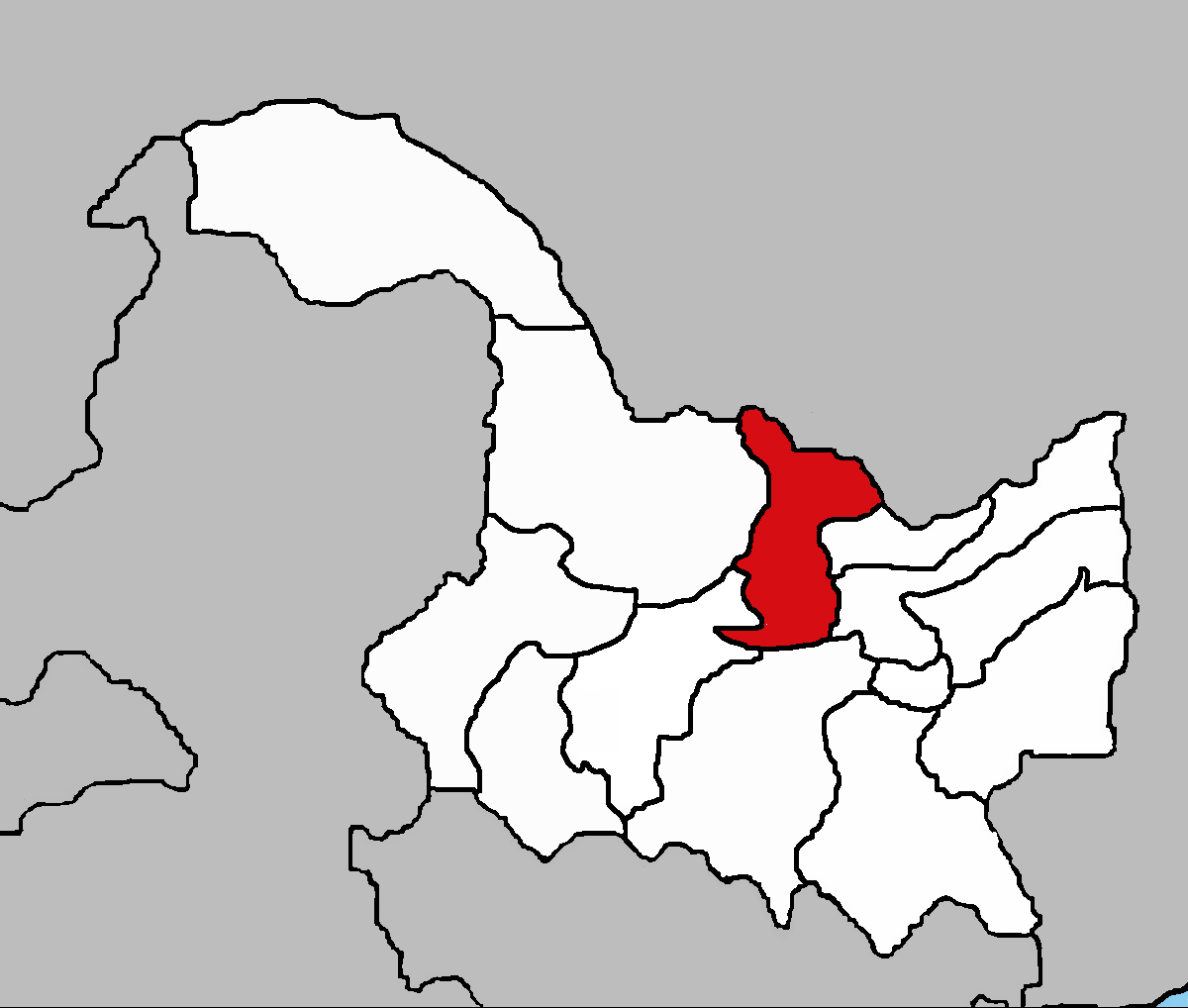 Map of Yichun Prefecture — Heilongjiang Province, China